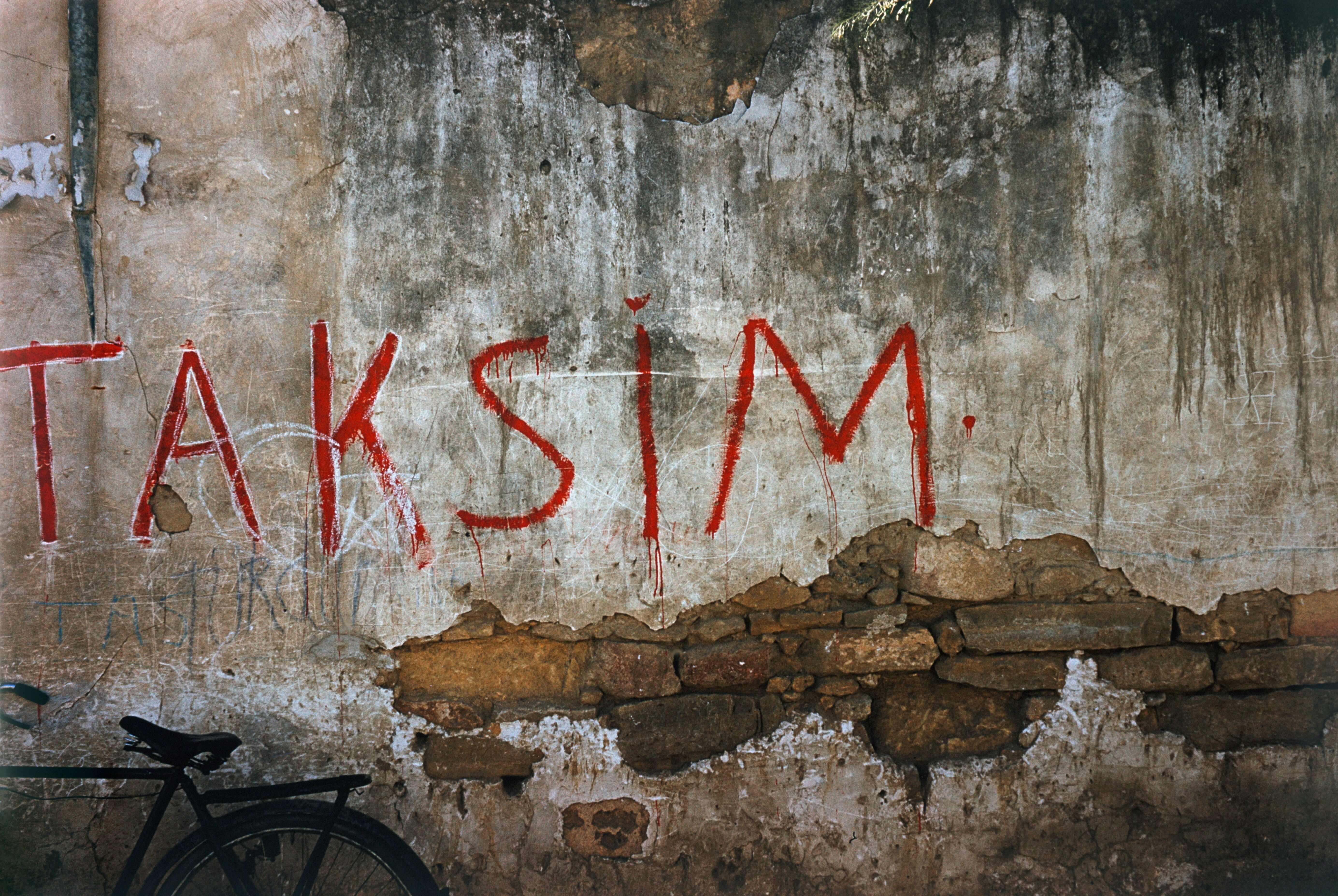 This graffiti on a wall in Nicosia is in support of the Taksim Turkish movement for the partition of Cyprus. It was taken sometime in the late 1950s, probably between 1957 and 1959.